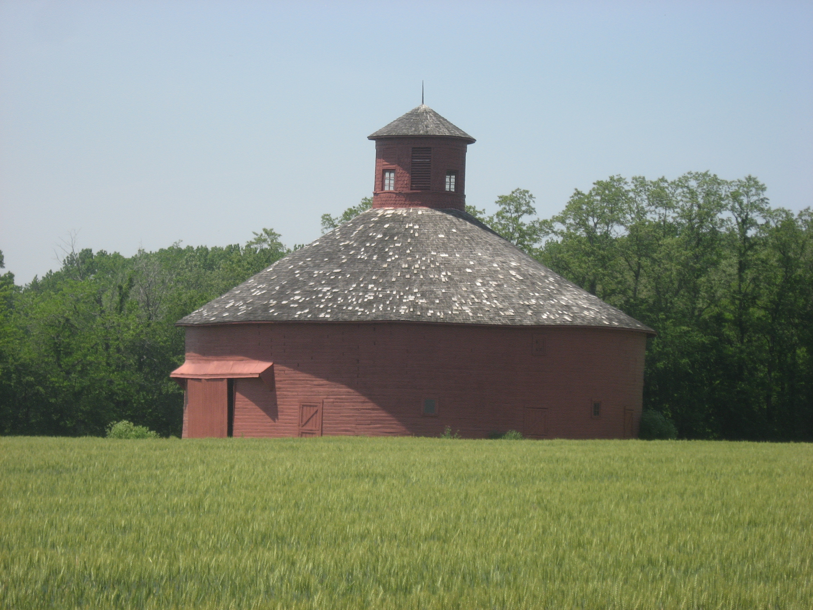 View from the southeast of the W. H. York Round Barn, located along County Road 249 southeast of Lodi in Liberty Township, Parke County, Indiana, United States. Built in 1895, it is listed on the National Register of Historic Places.